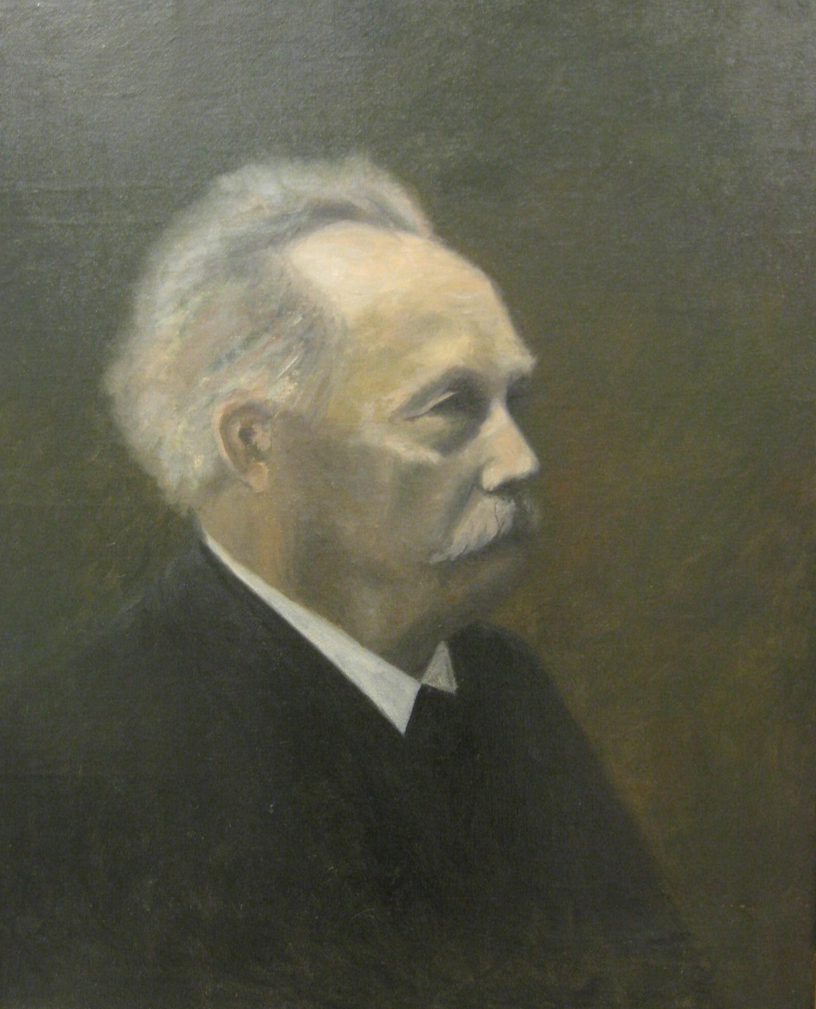 A portrait of Professor Björn M. Ólsen